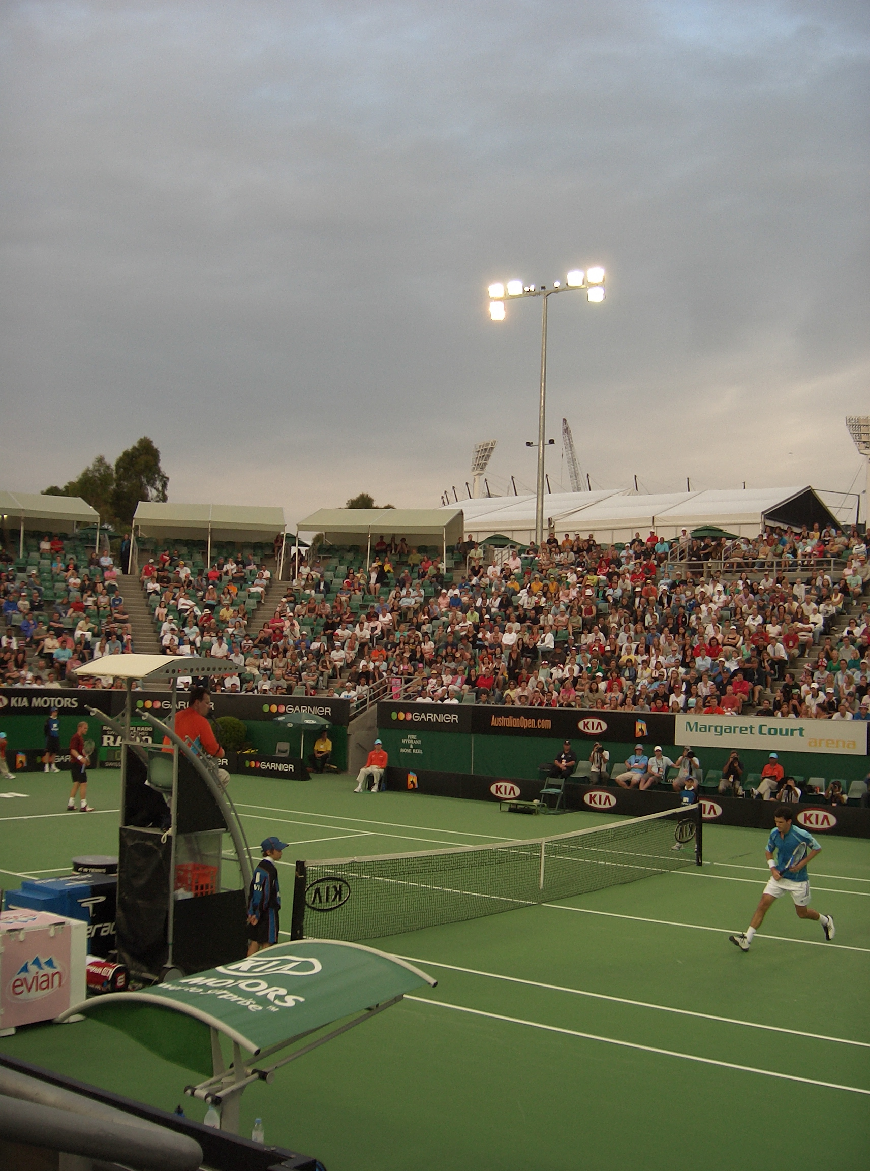 Tim Henman (far right) runs for the ball in his first round match against Dmitry Tursonov at the Margaret Court Arena, Australian Open 2006. Henman lost the match in four sets.